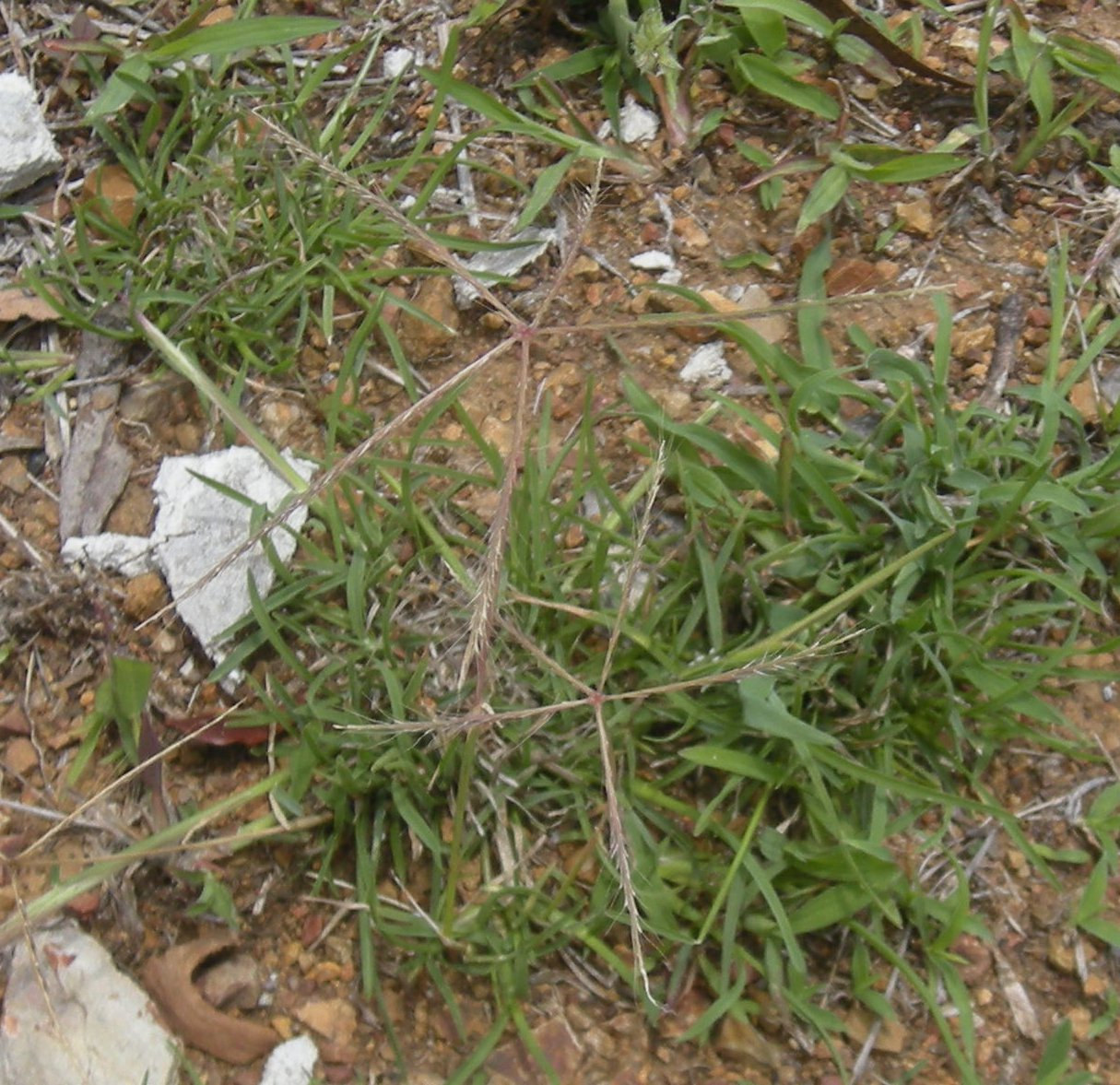 Enteropogon acicularis plant. Mount Etna Caves National Park, Central Queensland.